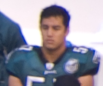 Flag raising ceremony before a Philadelphia Eagles/Dallas Cowboys game at Texas Stadium.